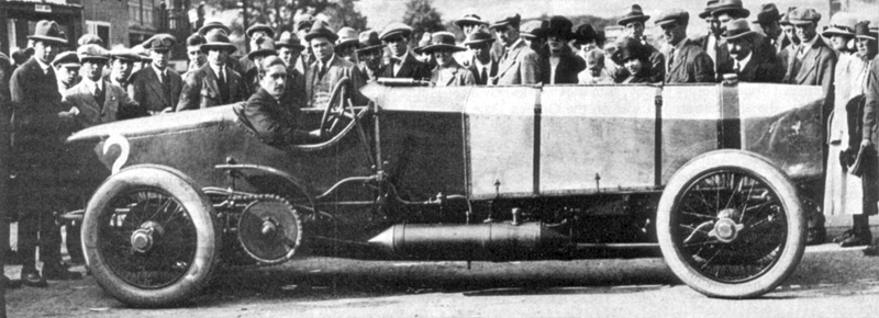 Count Louis Zborowski with Chitty Bang Bang 1 at Brooklands c1921. Photographer not known - picture scanned by me Ian Dunster 11:57, 1 October 2006 (UTC) from issue number 3 Volume 10, of Mayfair Magazine - 1975 - and uncredited.